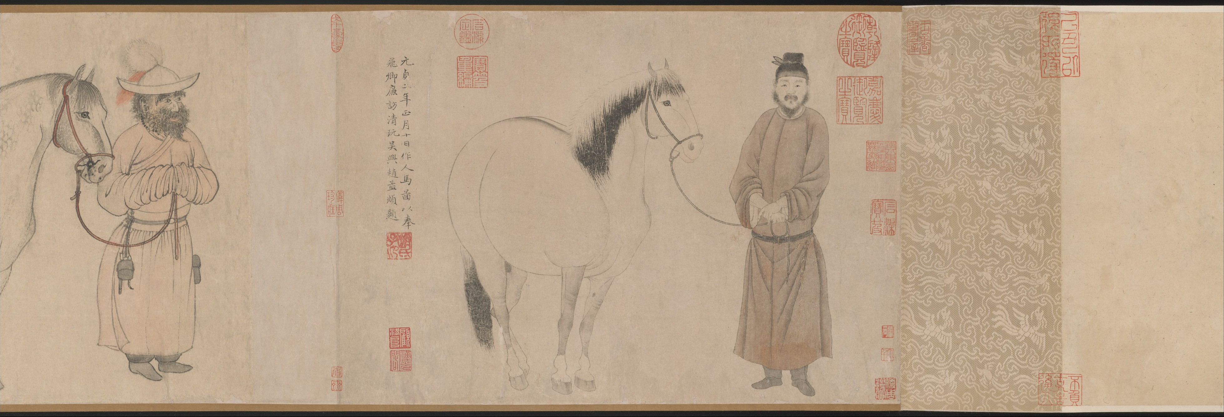 China; Handscroll; Paintings